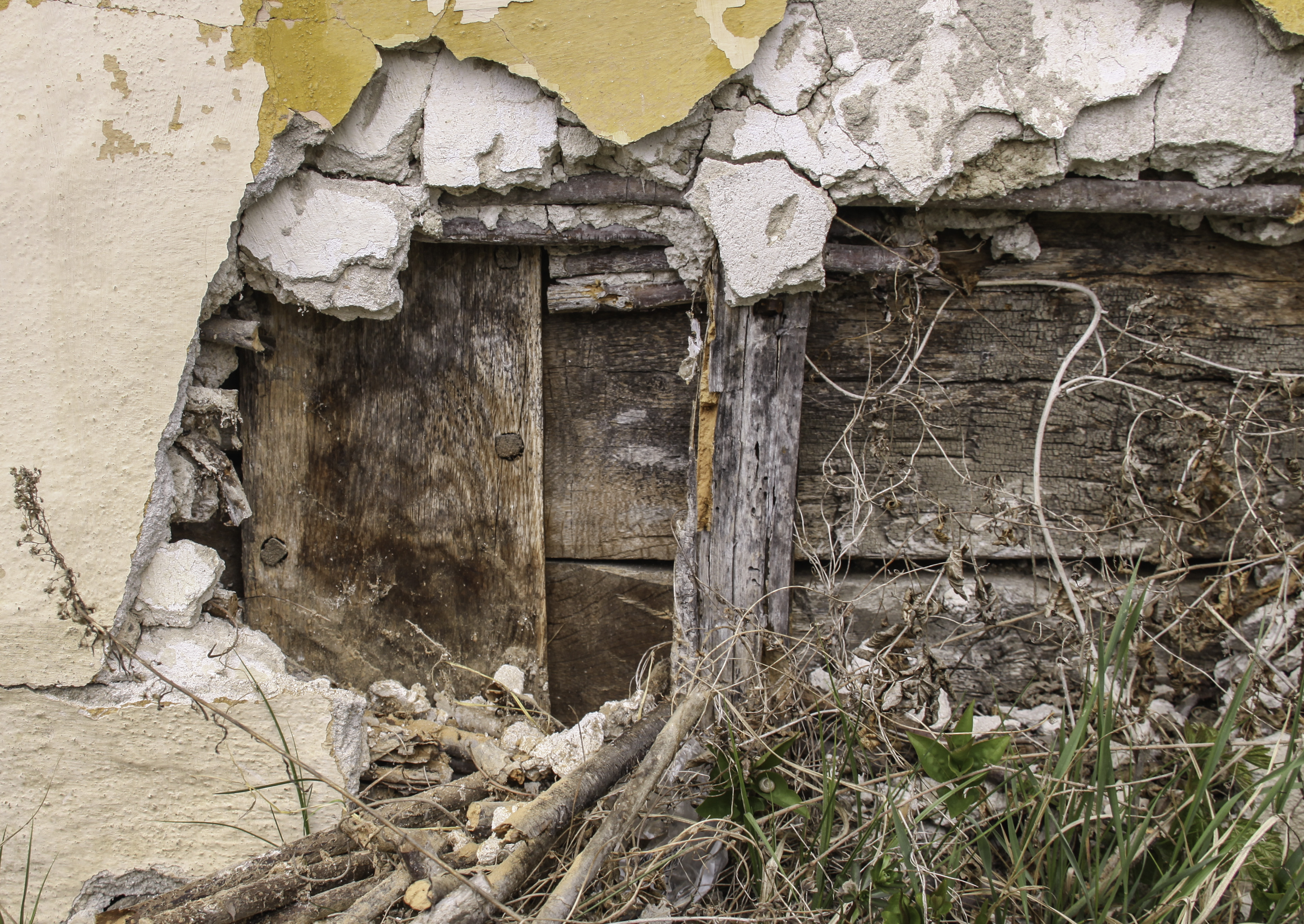 Moșteni-Greci, Argeș, Romania: the wooden church.